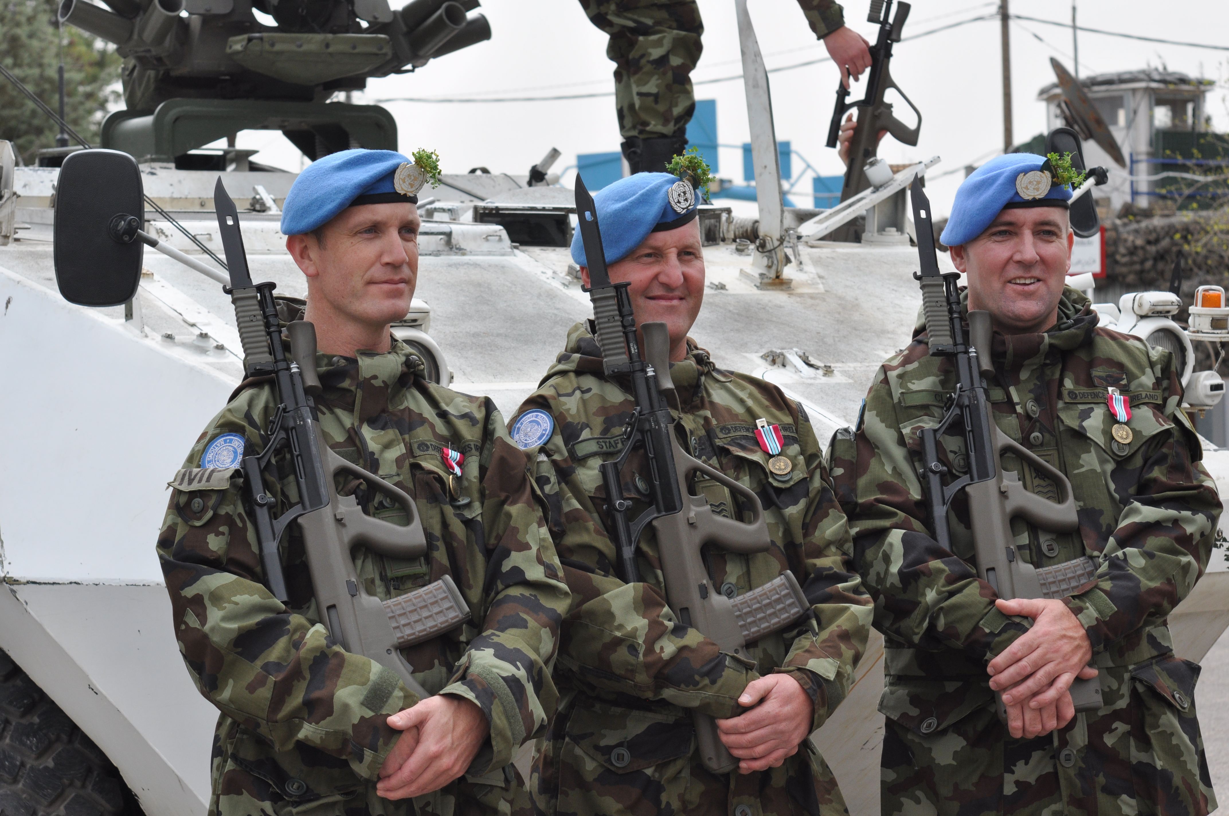 (left to right) Sgt Gary Carroll, Sgt Derek Stafford and CQMS Stephen Claire after receiving their UNDOF Medals on St Patricks Day in the Golan Heights Syria.